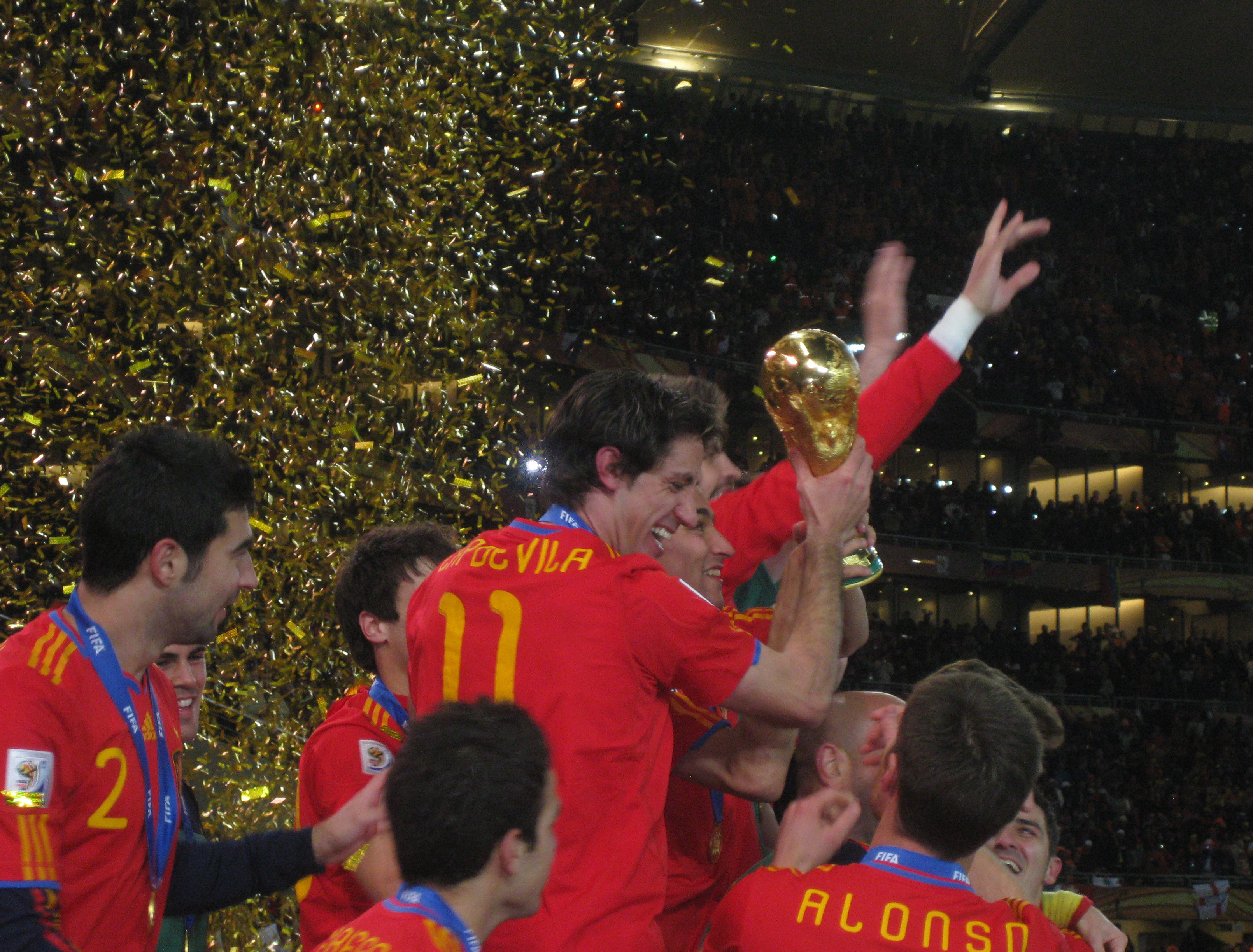 Spain with the cup after FIFA World Cup 2010 Final against Netherlands, 11 July 2010, Soccer City, Johannesburg